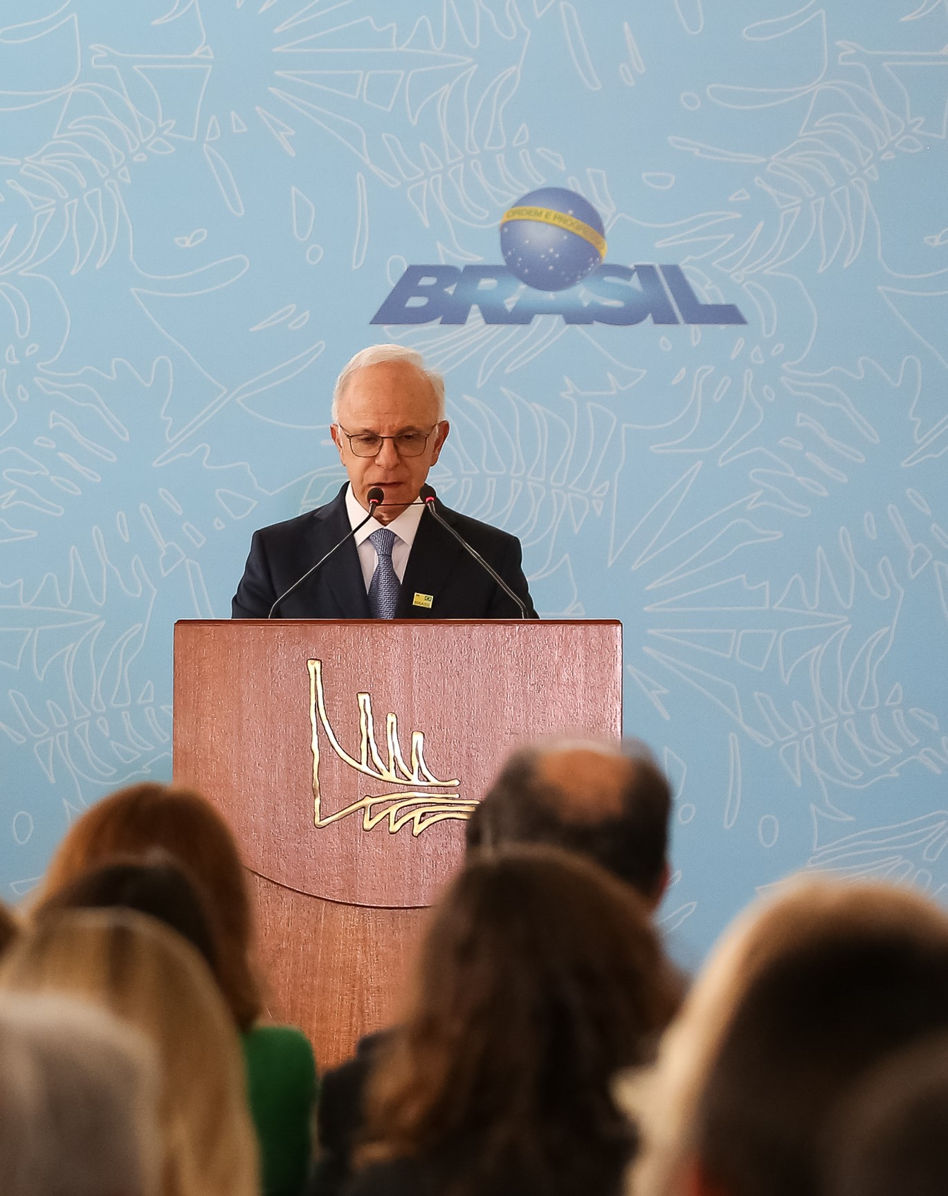 Founder-President of the Fundação Grupo Boticário de Proteção à Natureza, Miguel Krigsner giving a speech during the XXIX Prêmio Jovem Cientista Ceremony on December 05, 2018.